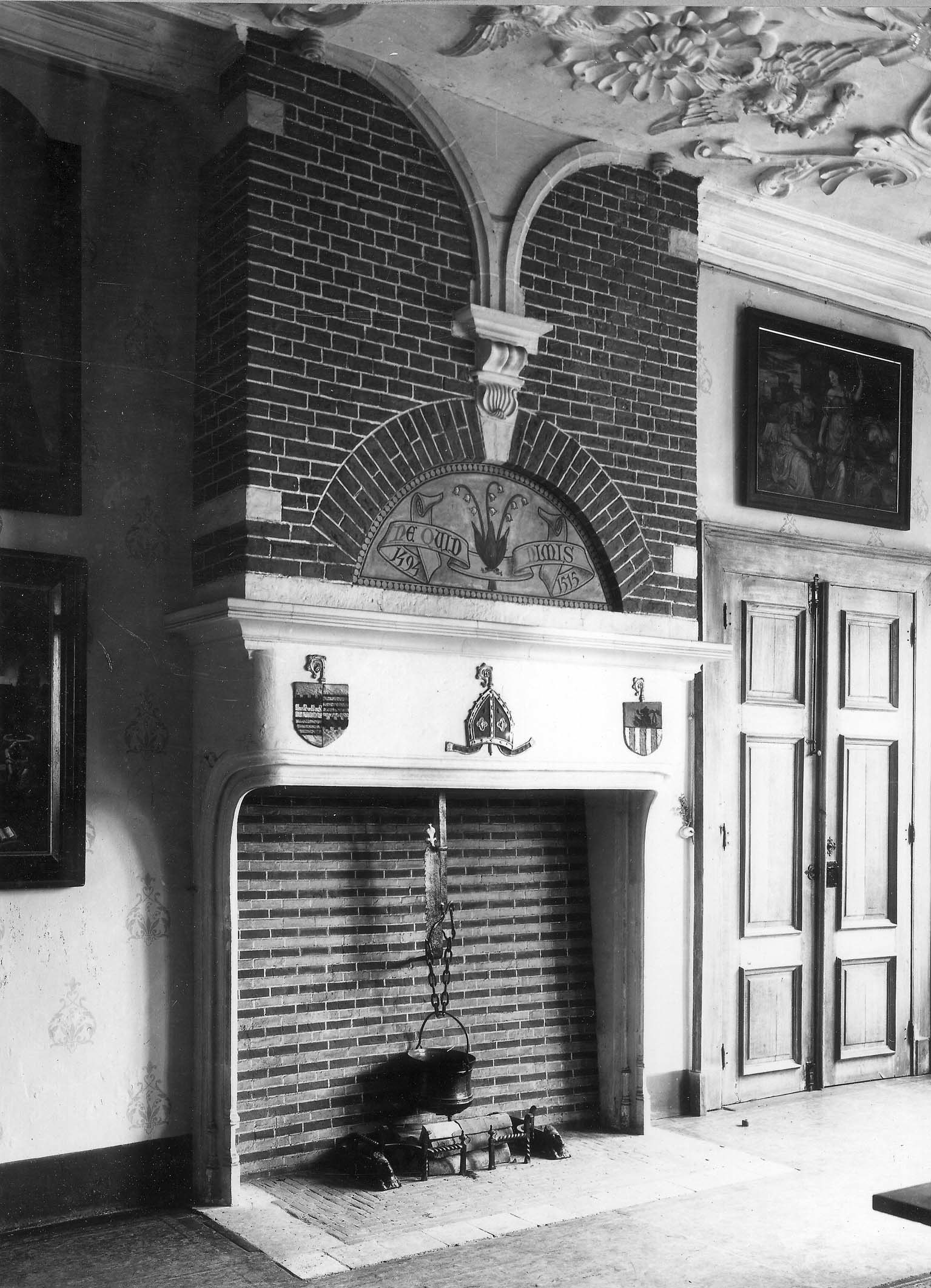 Chimney in the hall of the Prelate's quarters, ground floor. Buid between 1551 - 1600. It contains the coat of arms of the Abts Arnold Wyten (1419-1515) and Louis van den Berghe (1495-1548).